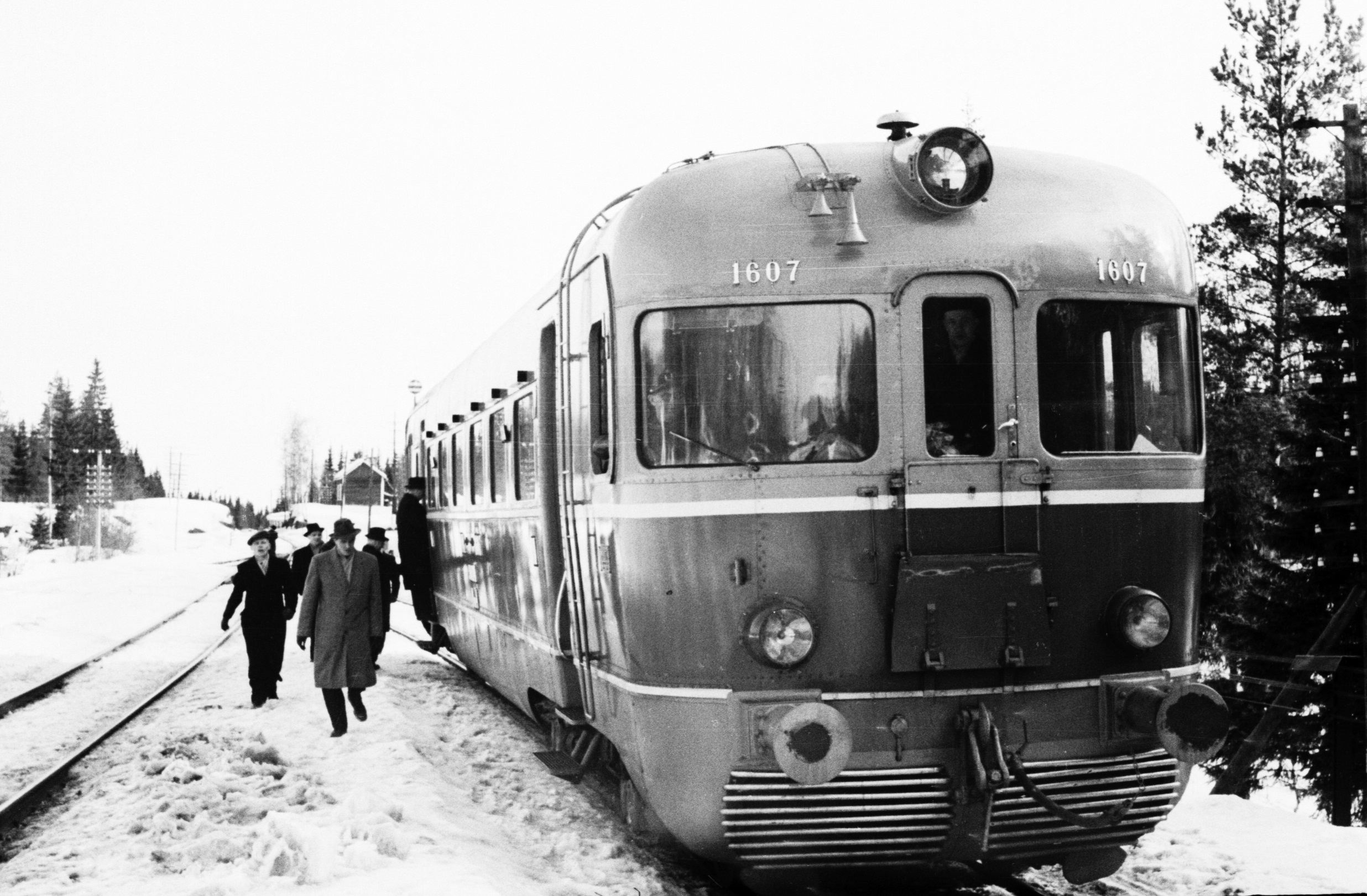 Finnish class Dm4 motorcar number 1607 at Kangasala in the winter 1955. Two years later (15 March 1957) it was totally destroyed in the Kuurila rail accident.